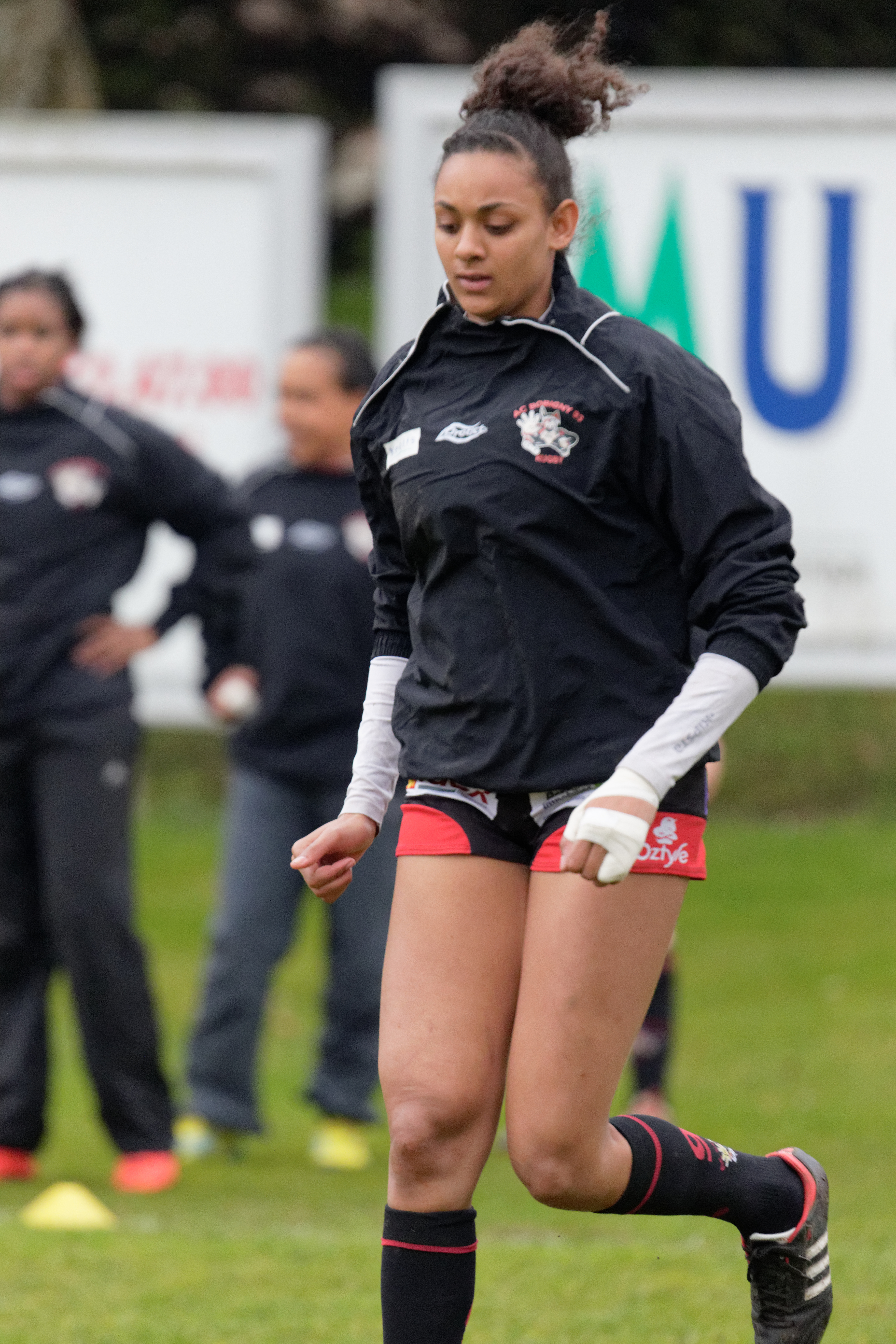 Bobigny vs Rennes, Top 8, 4th April 2015.